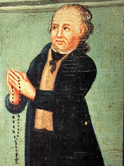 image of Müllner-Peter (1766–1843), German musician and polymath oil paintig on wood, part of votive tablet with original size 35 by 45 cm (rest of tablet is Mountain of Olives scenery with palm trees and landscape), which hangs in the Ölbergkapelle of Sachrang. This is the only known image of Müllner-Peter[1]